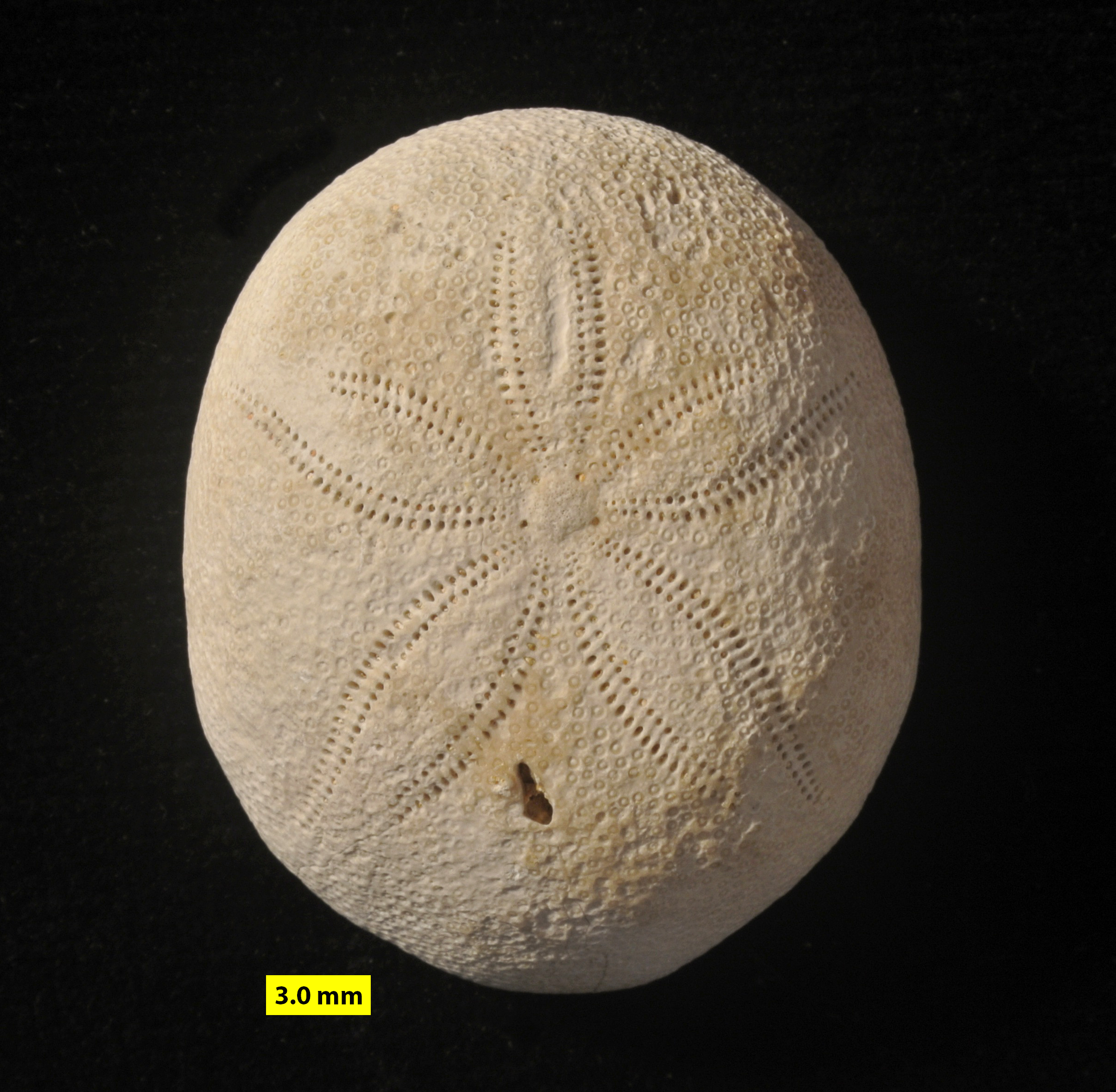 Echinolampas ovalis, Middle Eocene, Civrac-en-Médoc, France; aboral view.